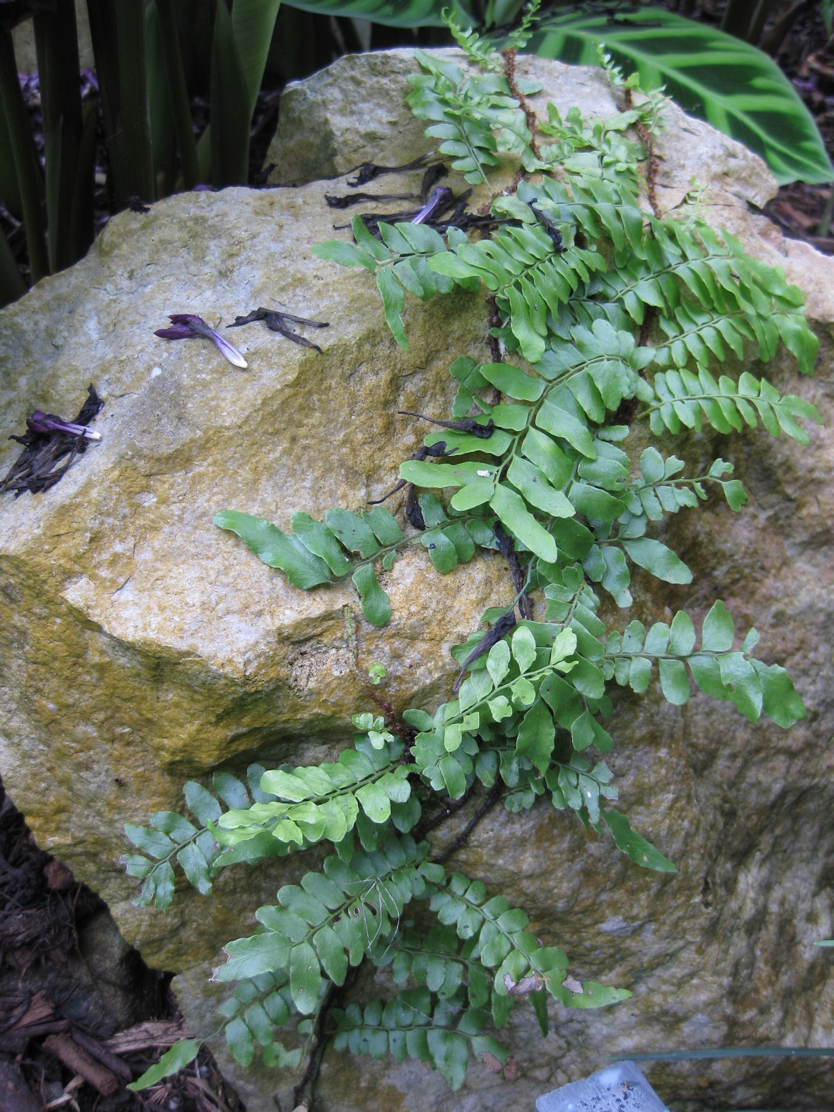 Photographed at the Royal Botanic Gardens Sydney (Australia) in January